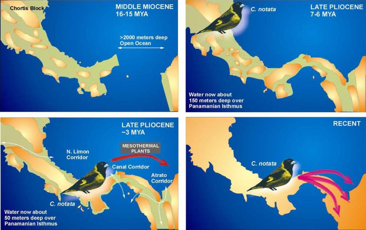 Spinus/Carduelis notata lives today in Meso America. It is the extant ancestor of the South American Siskins.